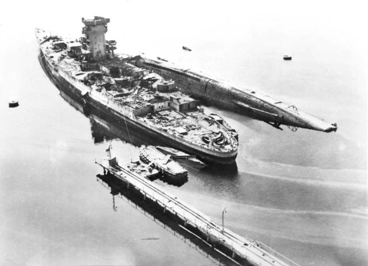 French battleship Strasbourg and cruiser (possibly La Galissonnière) after U.S. bombing attack of 18 August 1944.